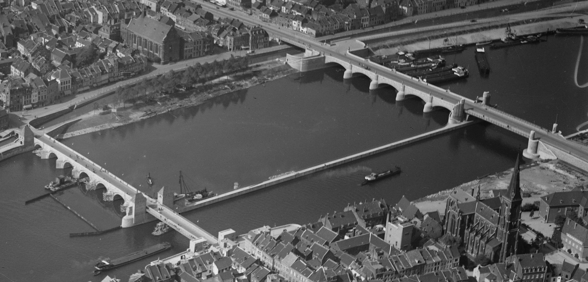 Aerial photograph of Maastricht, The Netherlands